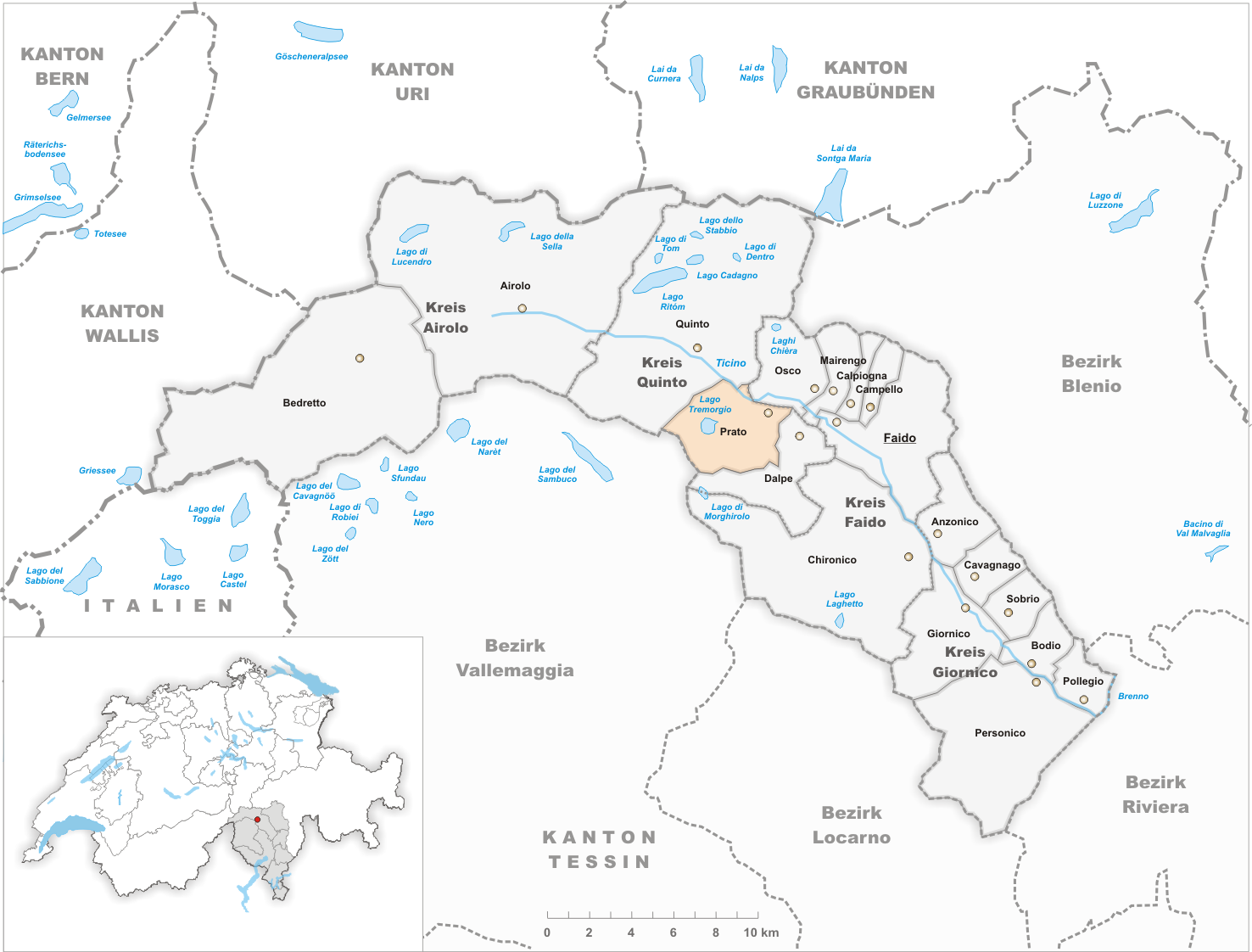 Municipality Prato (Leventina)